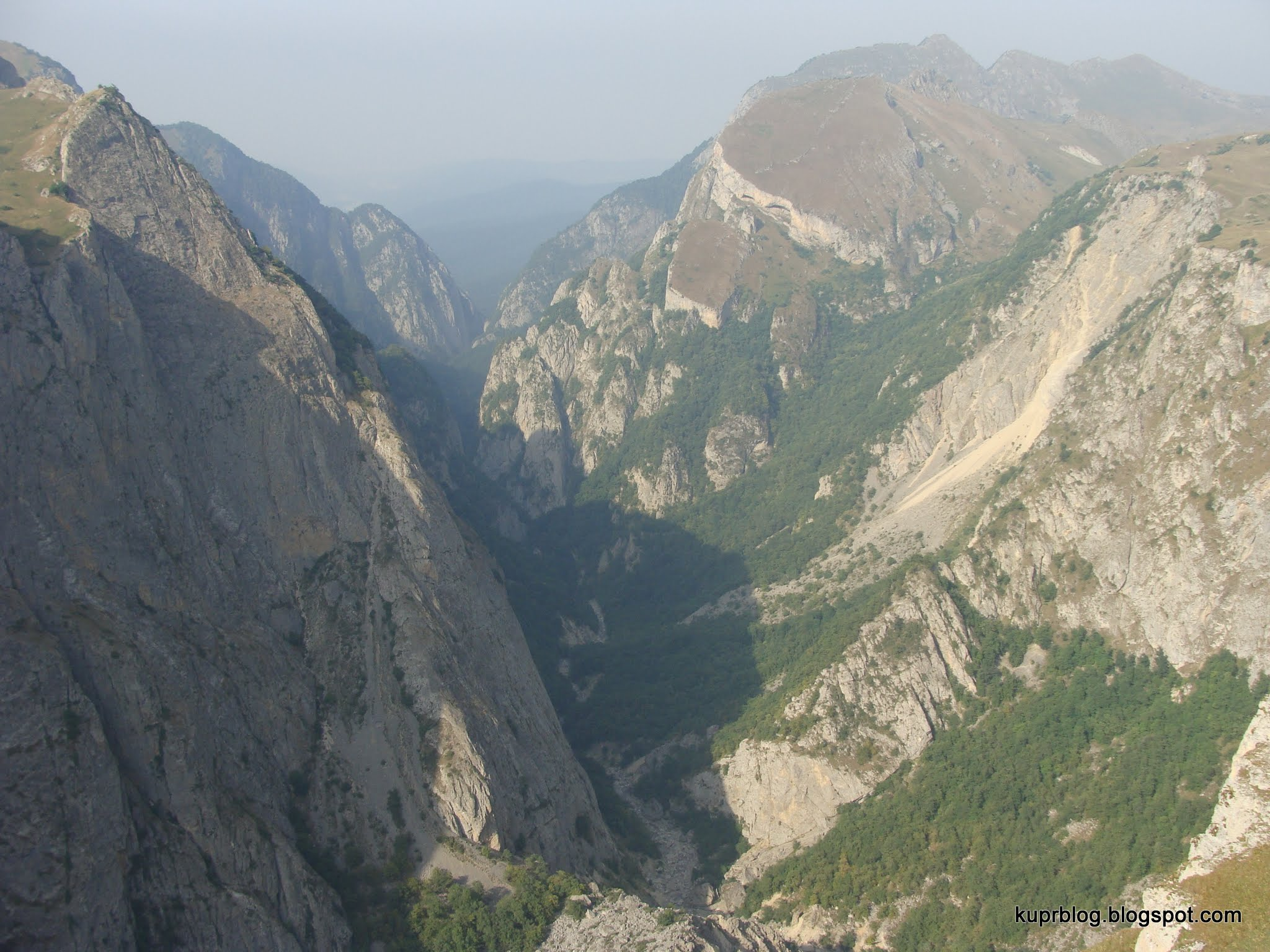 Karachay river, Azerbaijan